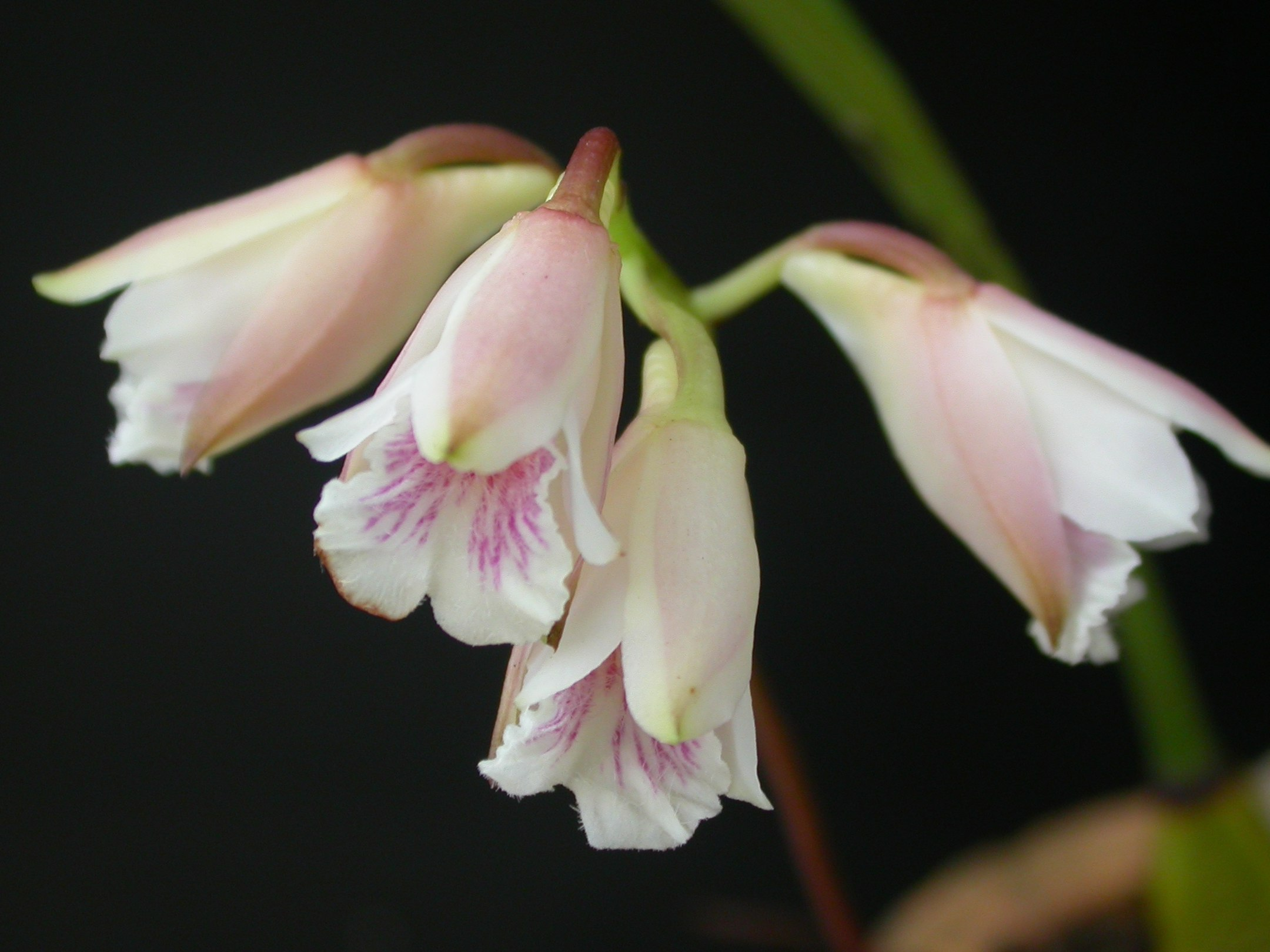 Bifrenaria leucorrhoda